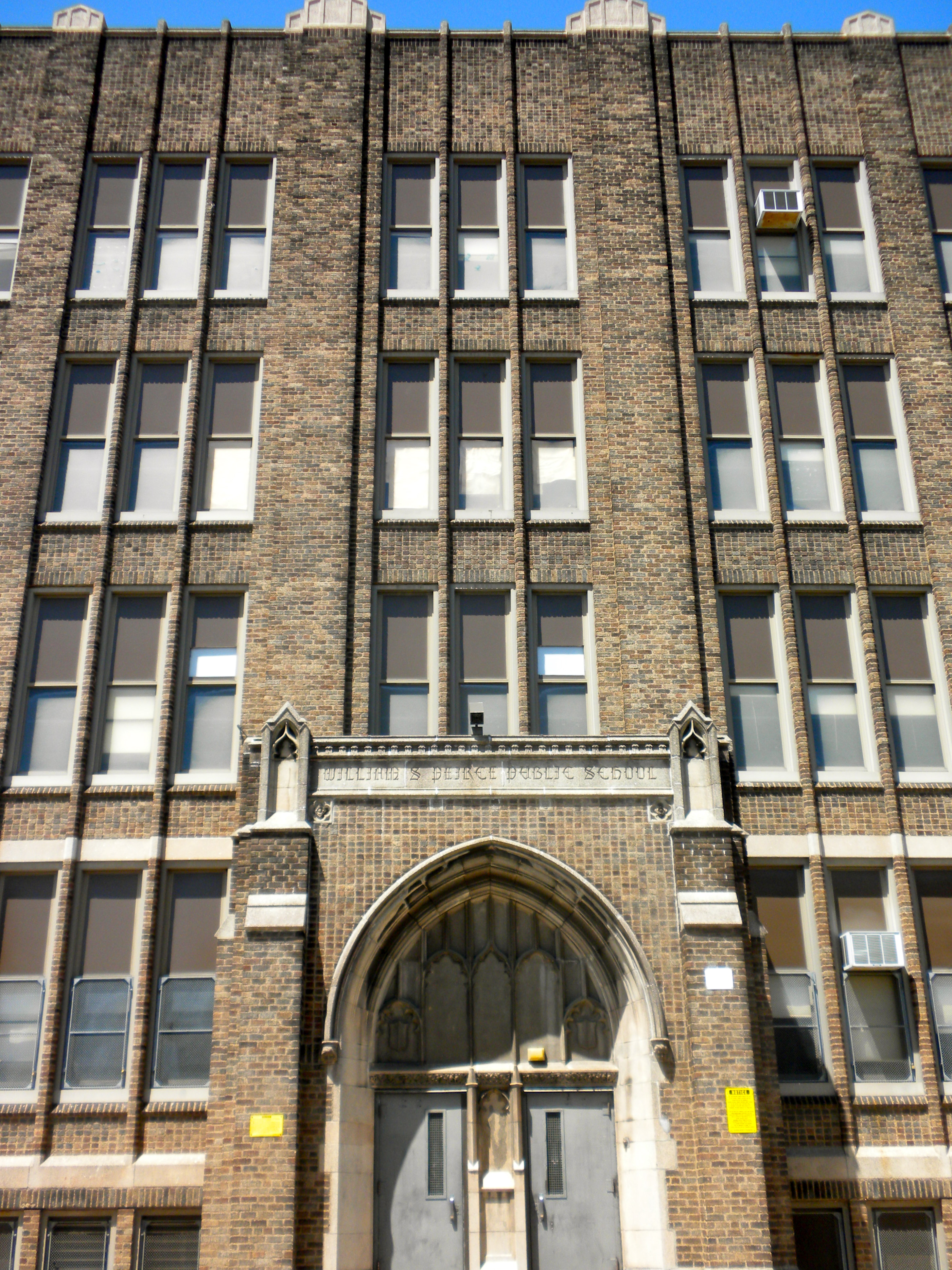 William S. Peirce School on the NRHP since November 18, 1988. At 2400 Christian Street in Southwest Center City, Philadelphia, PA